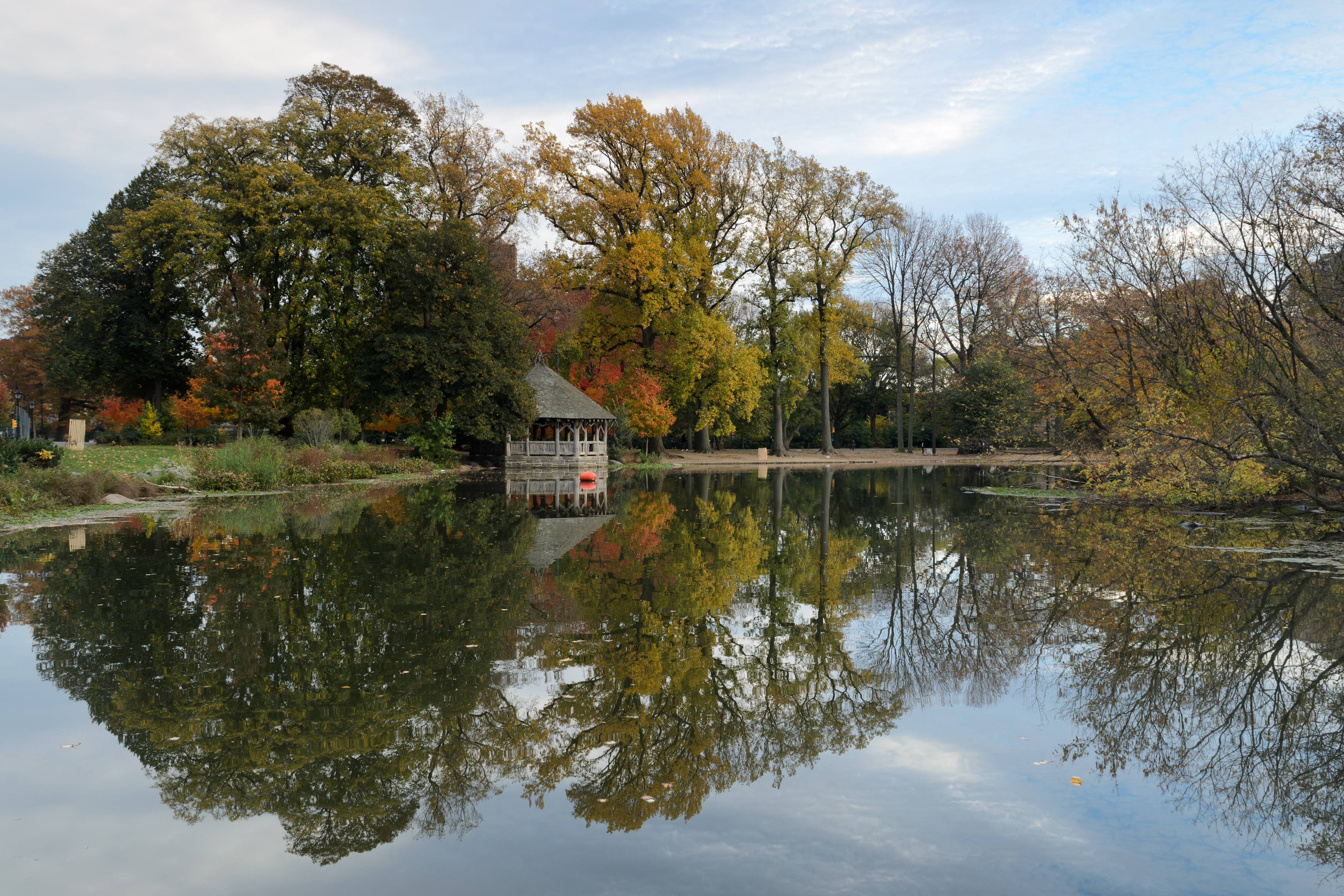 The Lake, Prospect Park, Brooklyn, New York City.